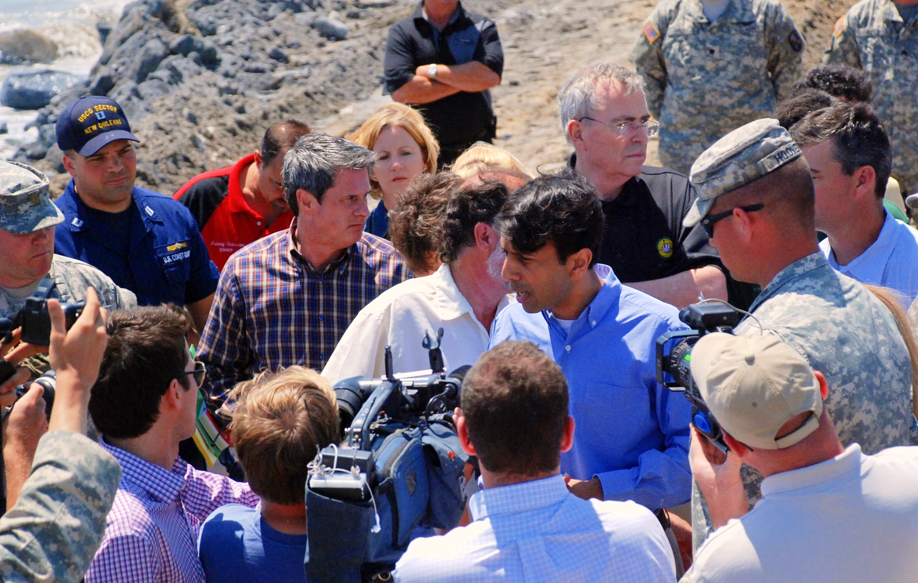 in Port Fourchon, La.